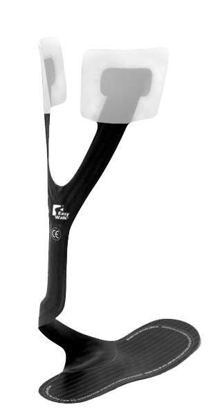 Drop foot advanced orthosis. A dynamic option for those suffering from drop foot